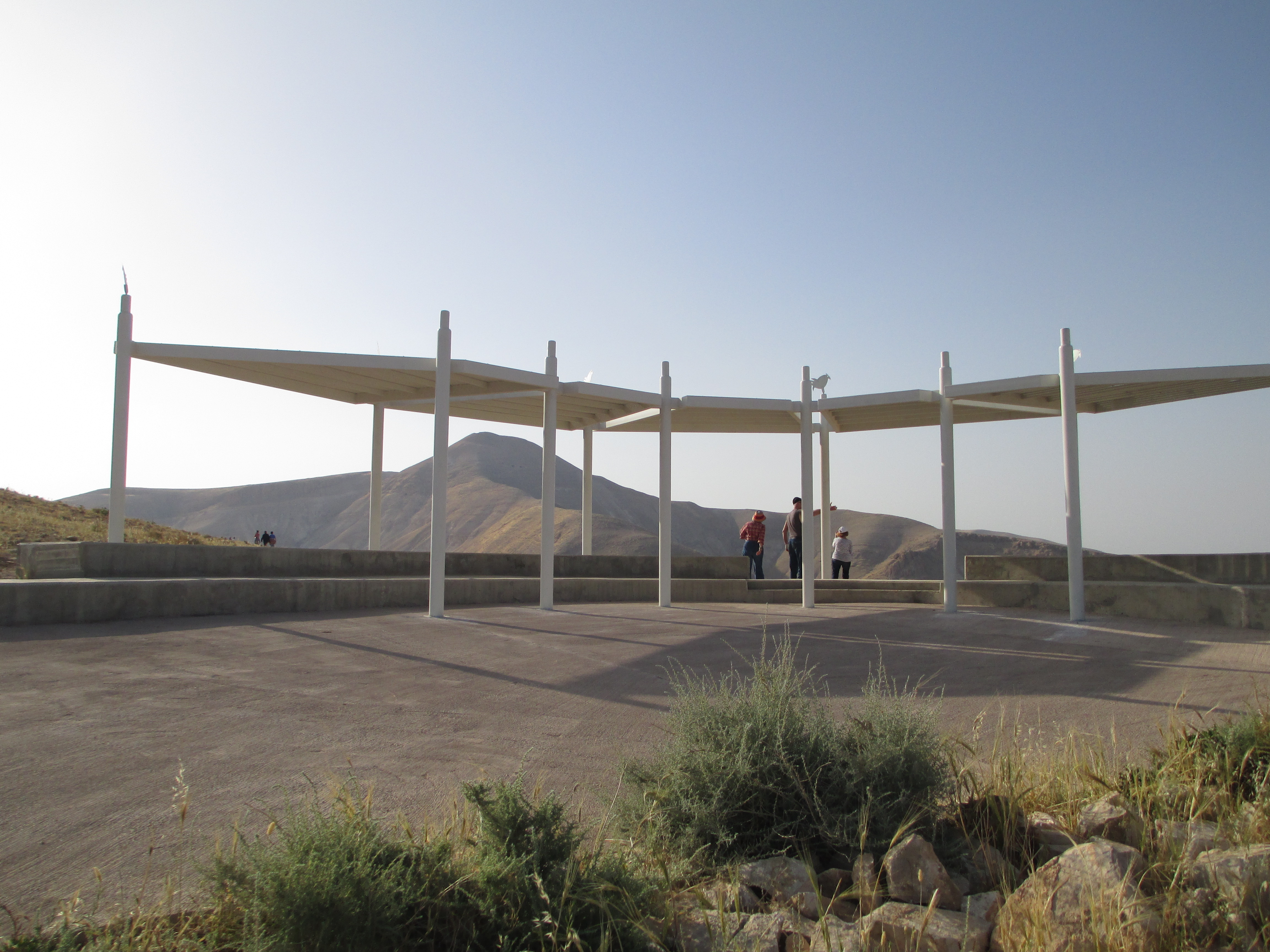 Sartaba lookout (Mustra)